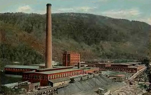 Cascade Mill in c. 1920, Gorham, NH; from an old postcard.